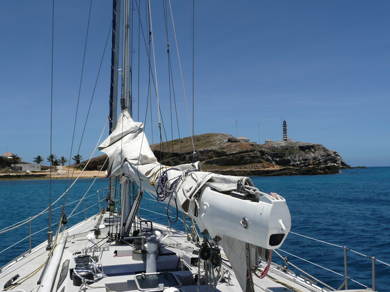 Abrolhos Islands: Abrolhos lighthouse at Santa Bárbara island - Atlantic Ocean - Bahia, Brazil.